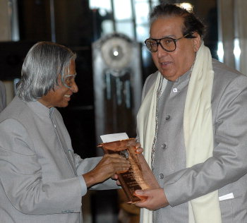 receipent of padmbhushan dr. moturi satyanarayan puraskar, Dr. Aadesh Harishankar